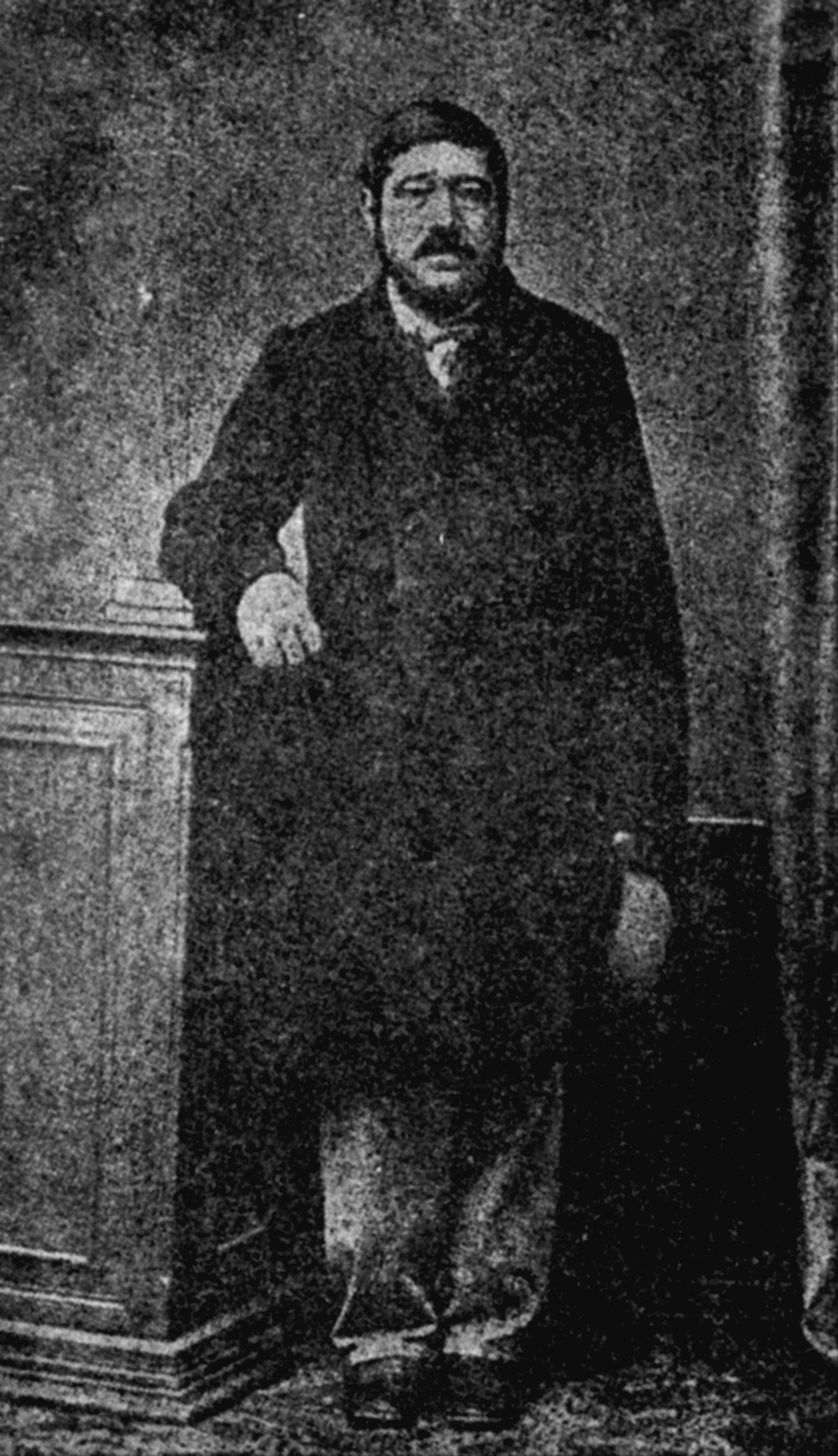 Photograph of Cilibi Moise, Romanian and Jewish raconteur